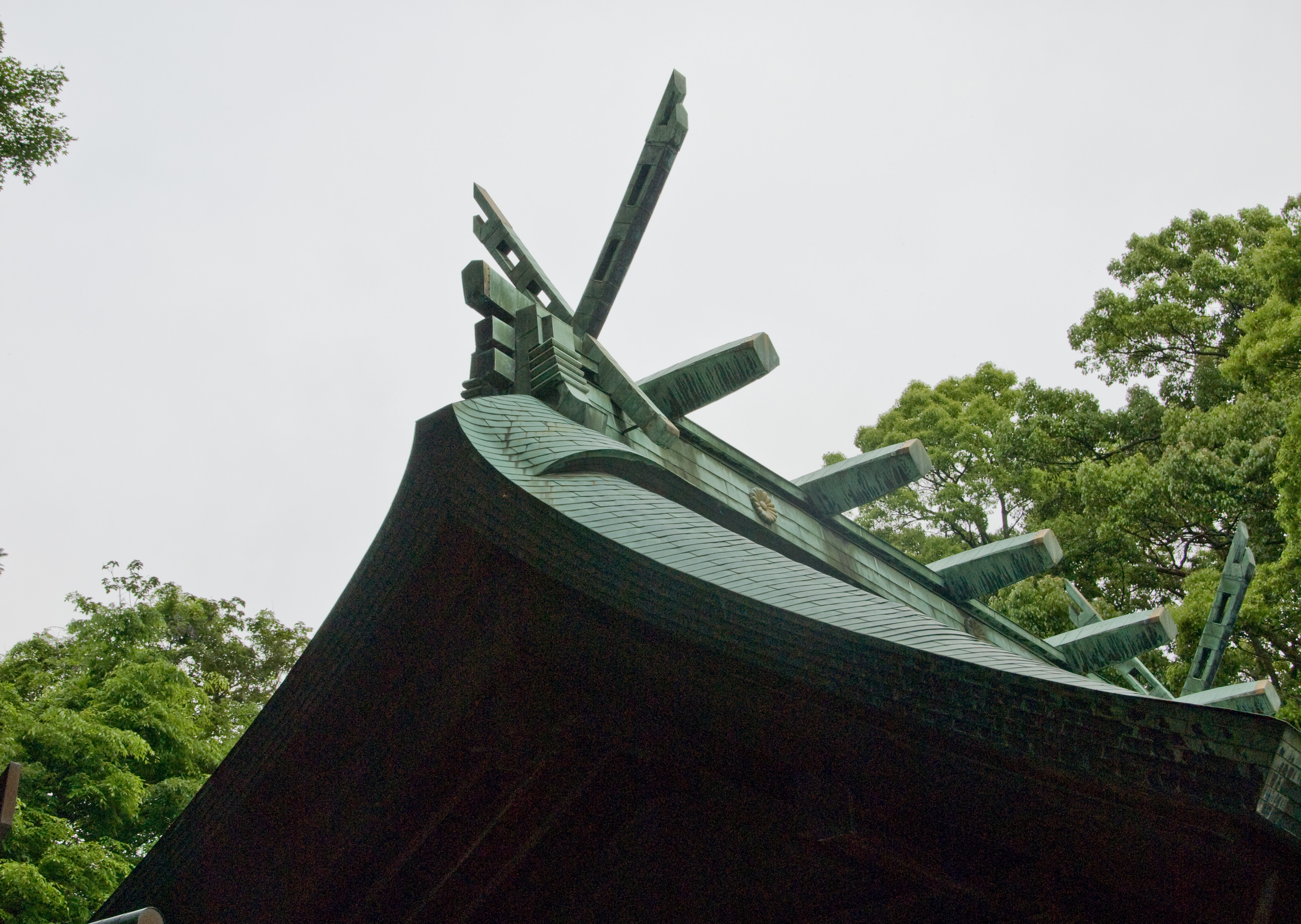 A photo showing the "chigi" an d the "katsuogi" on the roof of Kamakura-gū in Kamakura. The "chigi" are the cross atop the roof ridge, the katsuogi are the poles at 90 degrees to it.